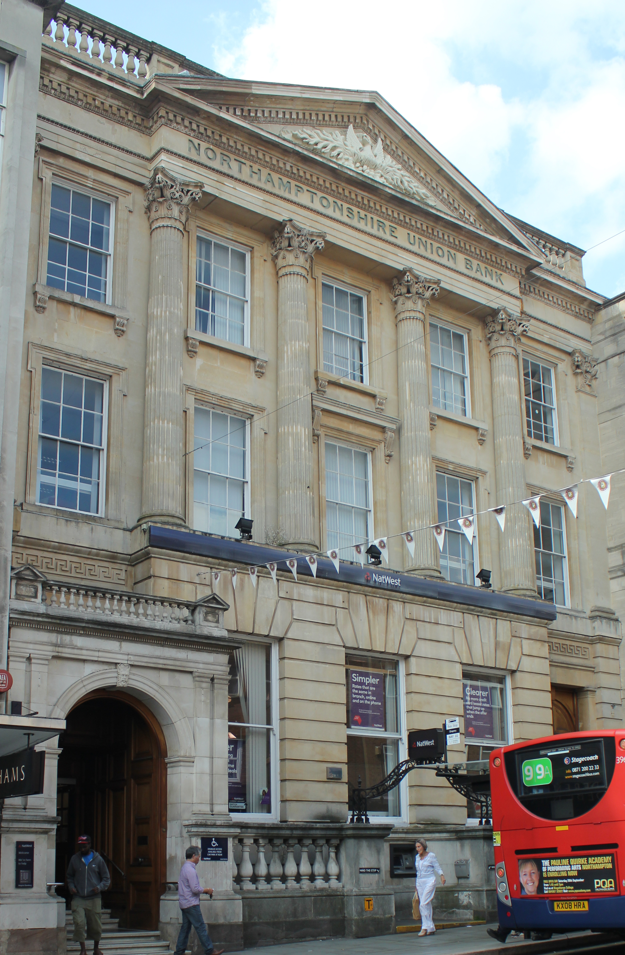 Exterior of Nat West Bank Northampton, England by E F Law c.1841